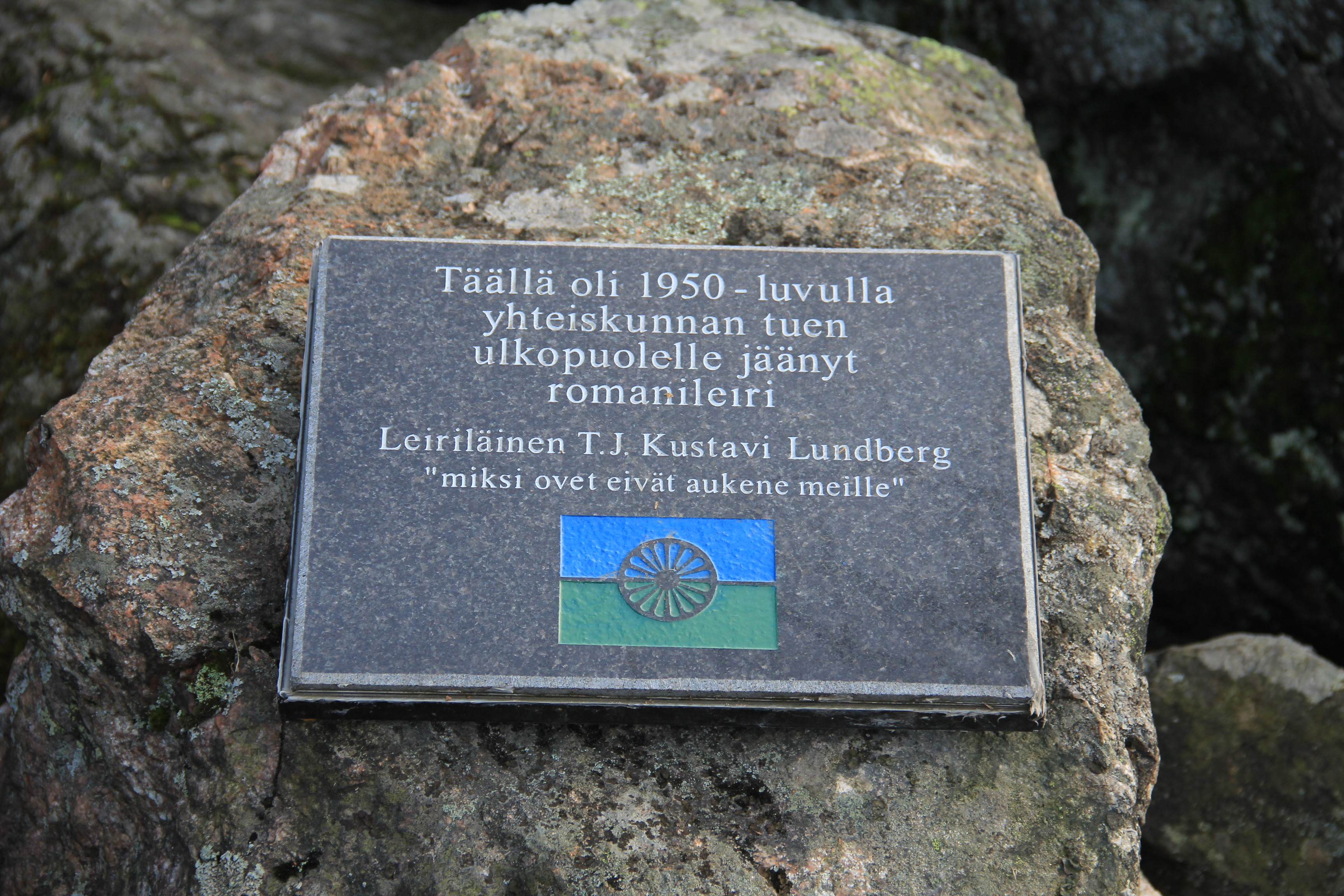 Memorial plaque of Romani peoples' camp in 1950s Mäkkylänmetsä, Leppävaara, Espoo, Finland. - Additional plaque.